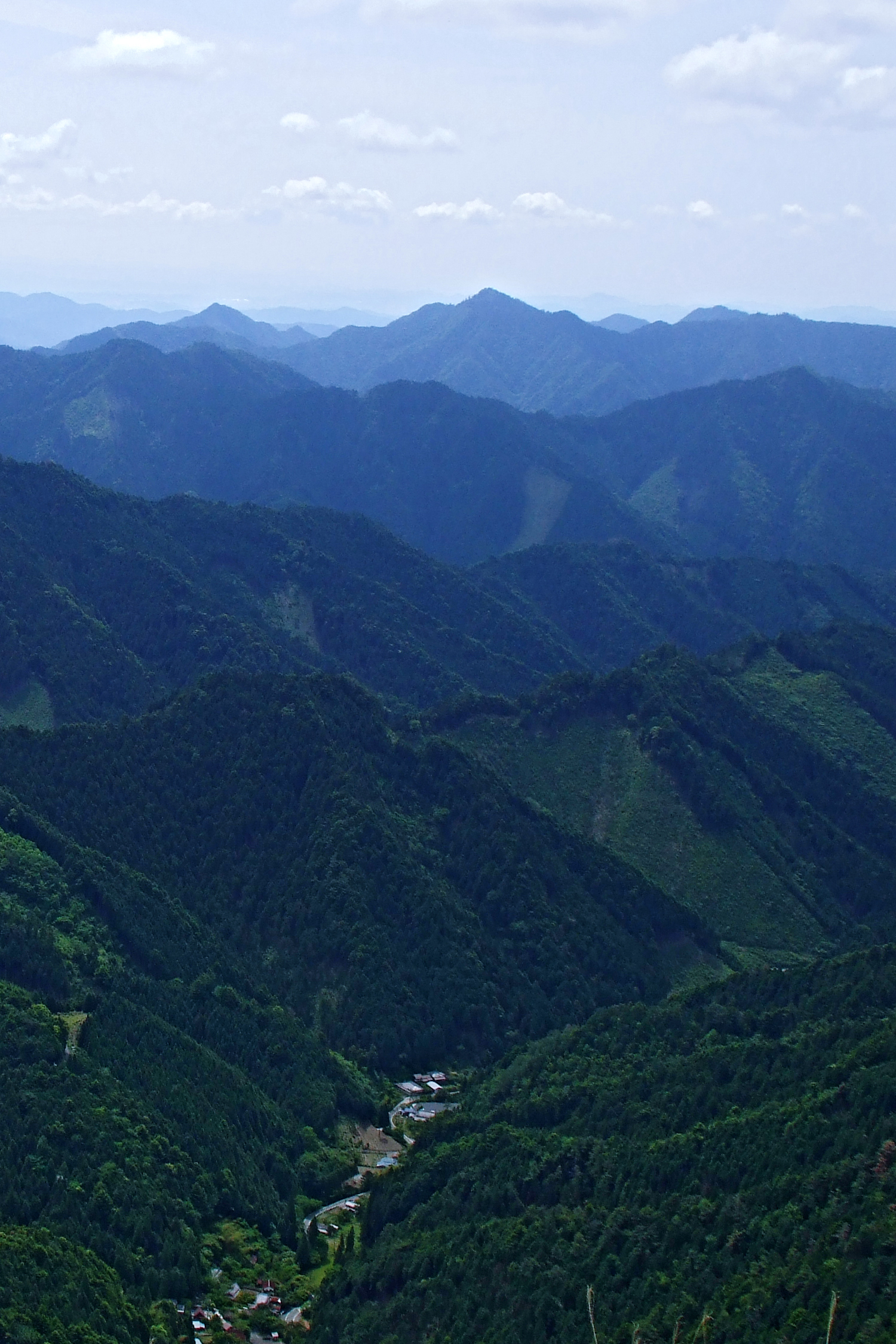 A view from Horagatake Peak of Mount Seppiko in Himeji, Hyogo prefecture, Japan.